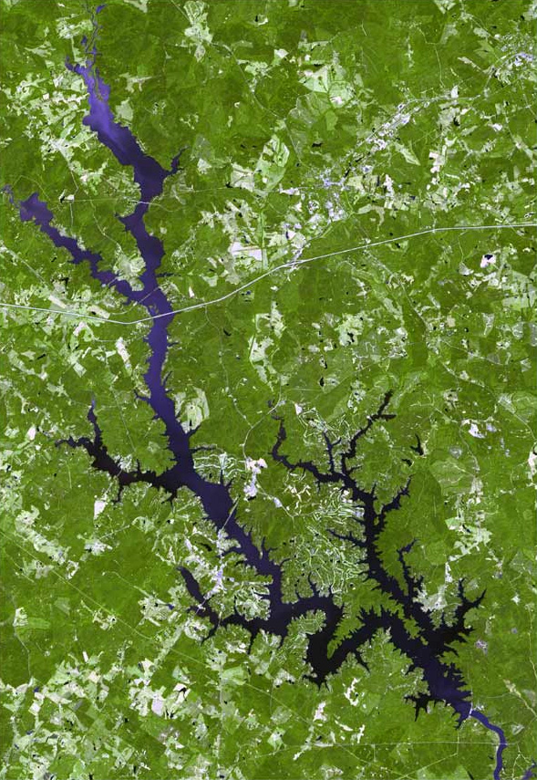 The raw satellite imagery shown in these images was obtain from NASA and/or the US Geological Survey. Post-processing and production by